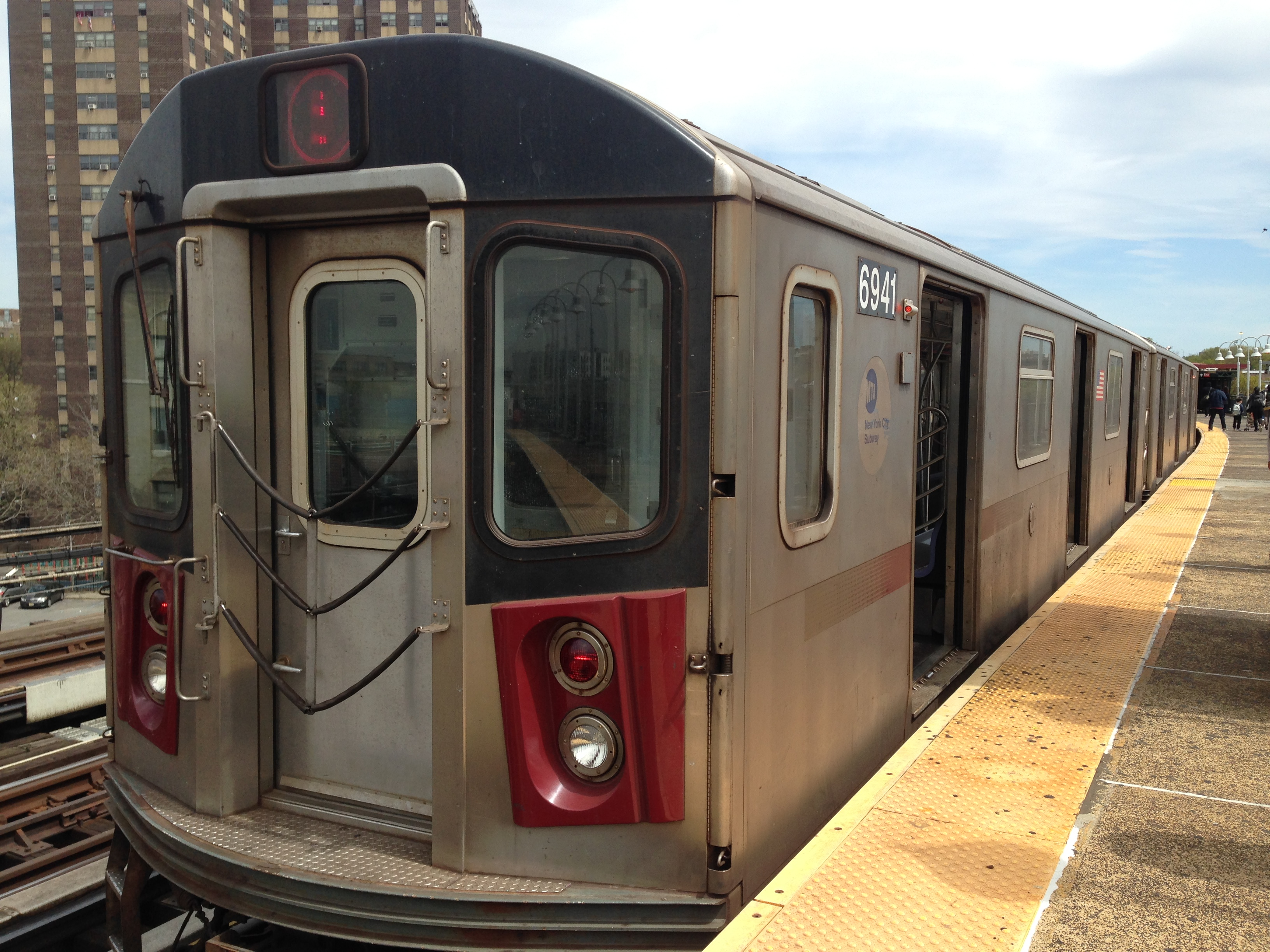 Uptown R142 5 train at West Farms Square